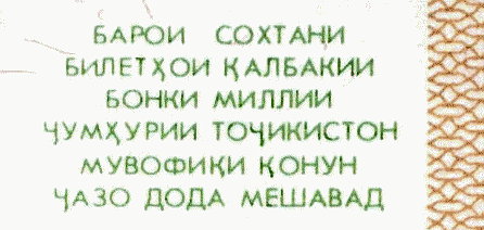 Detail from the reverse of the Tajik 1 rouble note. Cropped from a scan taken by a friend from a note he bought in a shop in London.